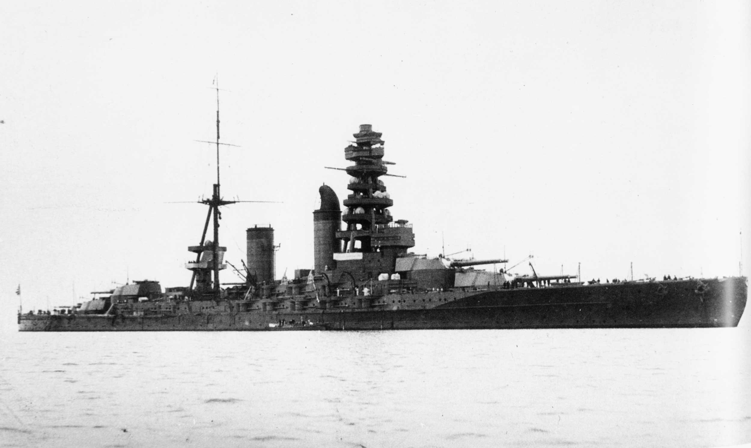 Nagato, April 1922